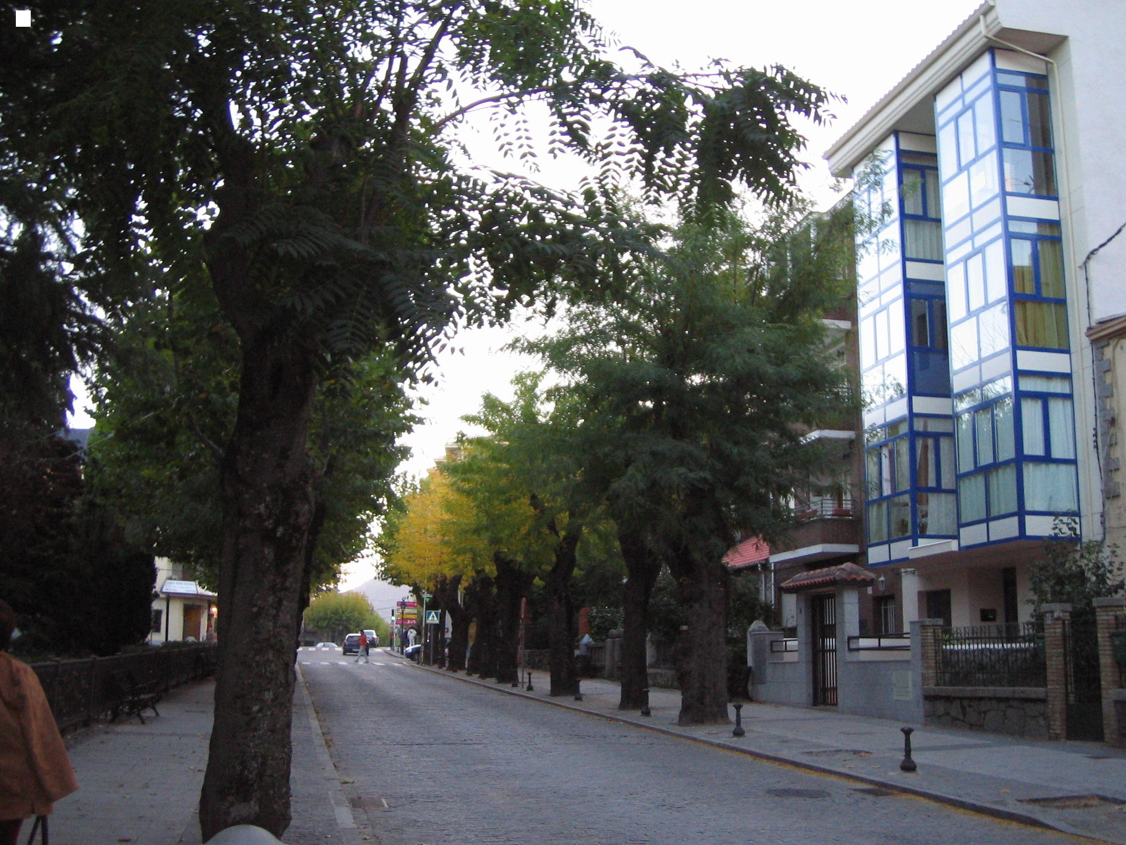 Buildings in El Escorial (Spain)